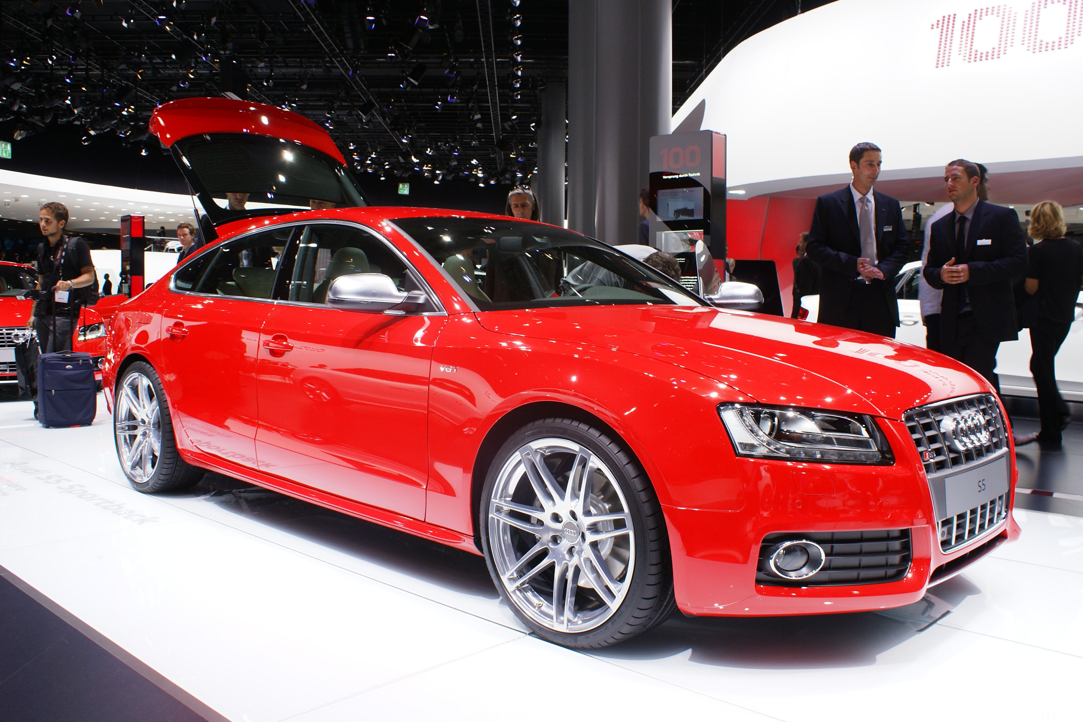 Audi S5 Sportback